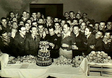 Fano, Italy. 28 April 1945. The famous No. 239 (Kittyhawk fighter bombers) Wing of the Desert Air Force held a sports meeting and party to mark the third anniversary of the wing's formation. Cheery airmen surround their Commanding Officer, Group Captain Brian A. Eaton DSO DFC, RAAF, of Melbourne, Vic, as he cuts the wing's birthday cake to start off the evening's festivities.